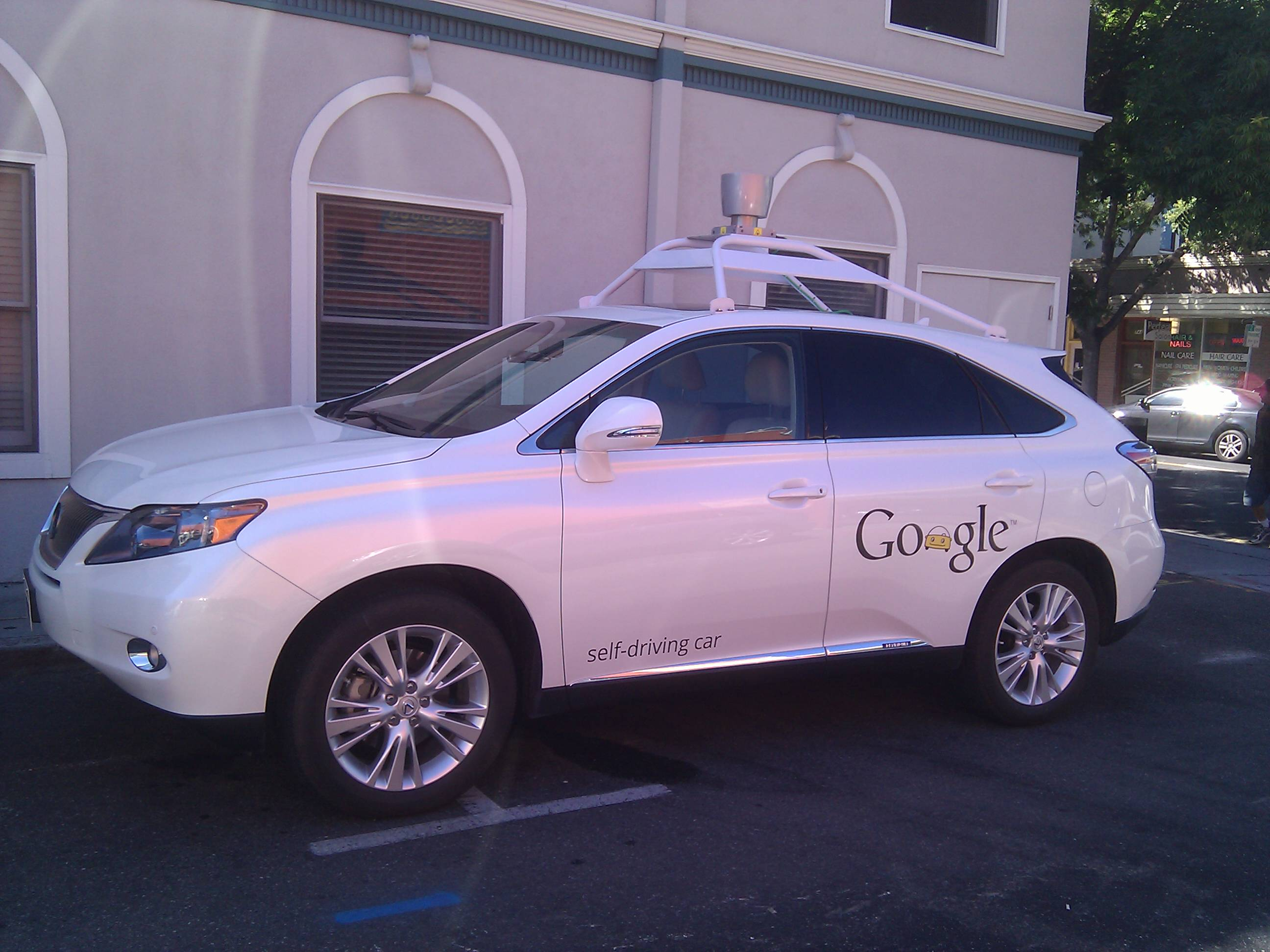 Google self-driving car in Mountain View